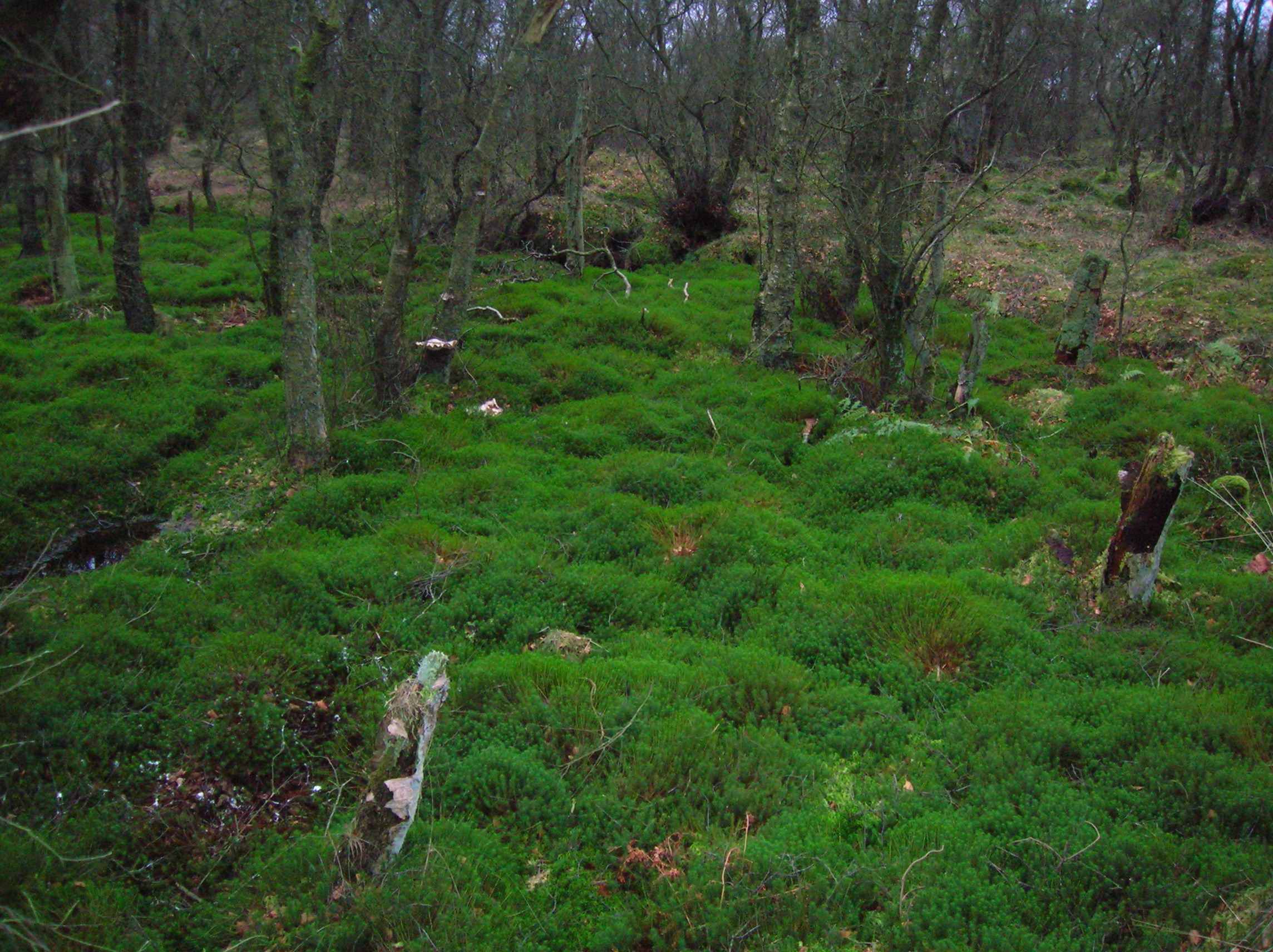 Auchentiber Moss, a lowland raised bog, North Ayrshire, Scotland.